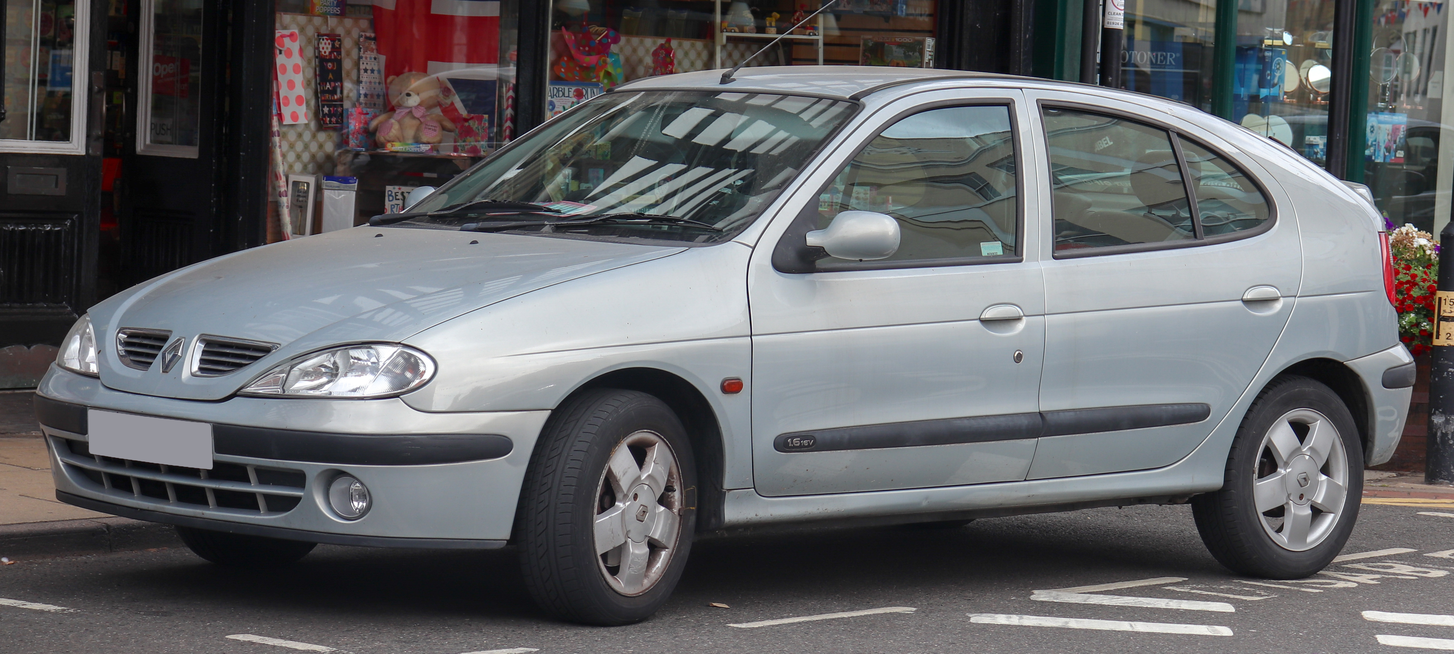 2002 Renault Megane Fidji 16V Automatic 1.6 Front Taken in Warwick